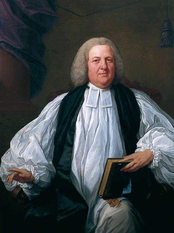 Robert Hay Drummond (1711-1776), Archbishop of York